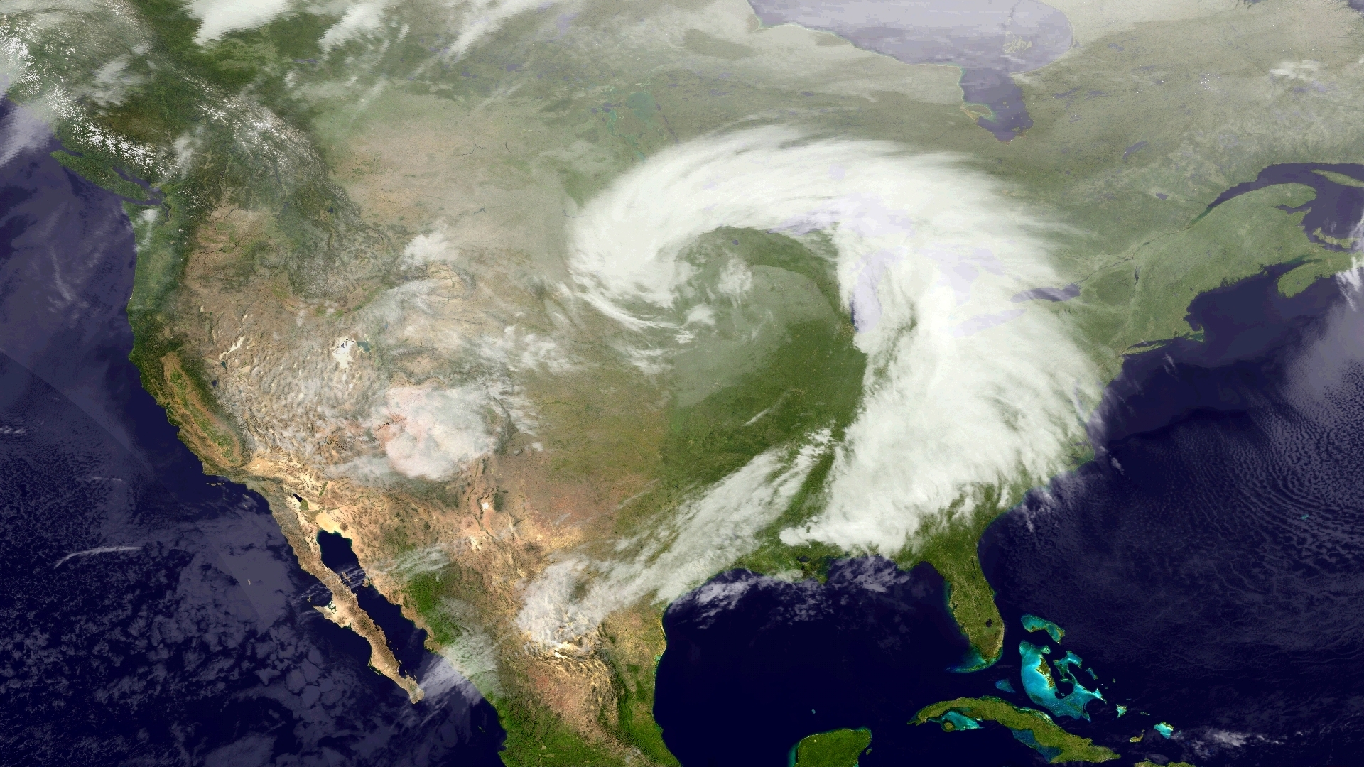 Large-scale storm system over the continental United States on February 10, 2013. The system caused a tornado outbreak and heavy snow.